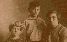 The Reve family (guessed to have been taken in 1929)